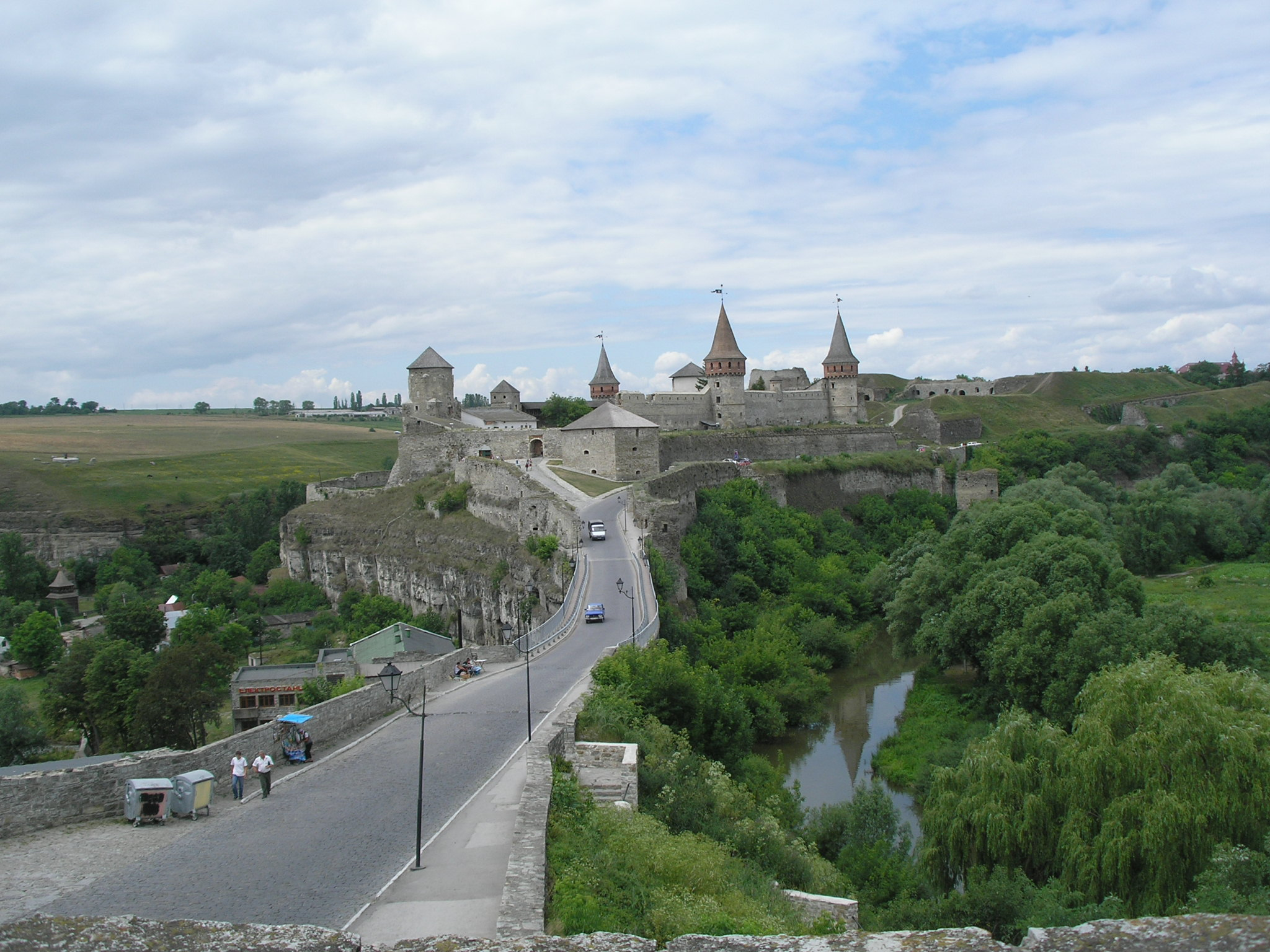 The Kamianets-Podilskyi Castle in Kamianets-Podilskyi, Ukraine